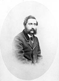 French philosopher and sociologist Émile Boutmy (1835-1906)